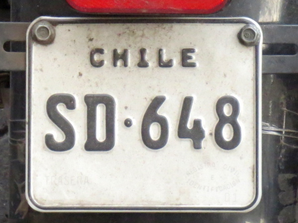 Chilean registration plate: motobike